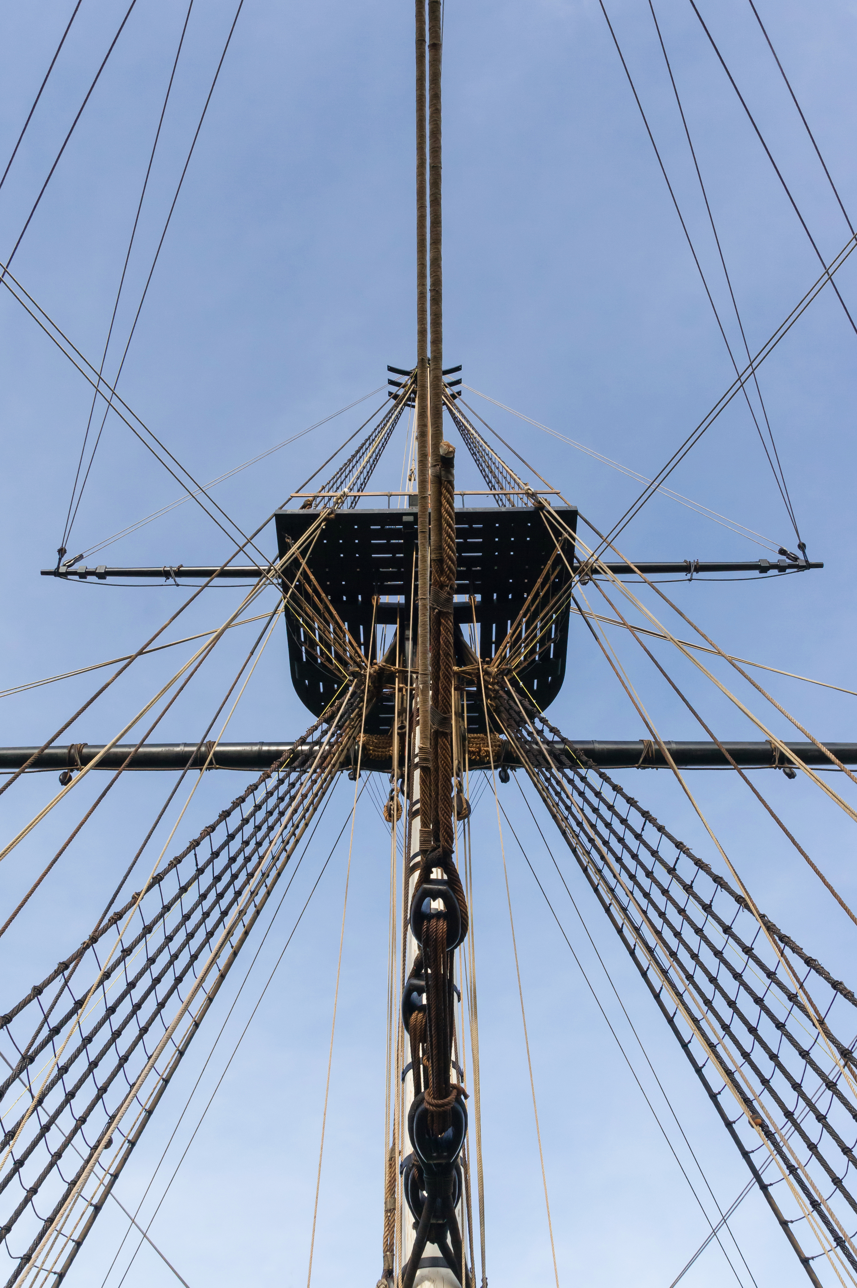 Mast, shrouds, yard, top, ratlines etc... from below, on board of L'Hermione, Rochefort-sur-Mer, Charente-Maritime, France.